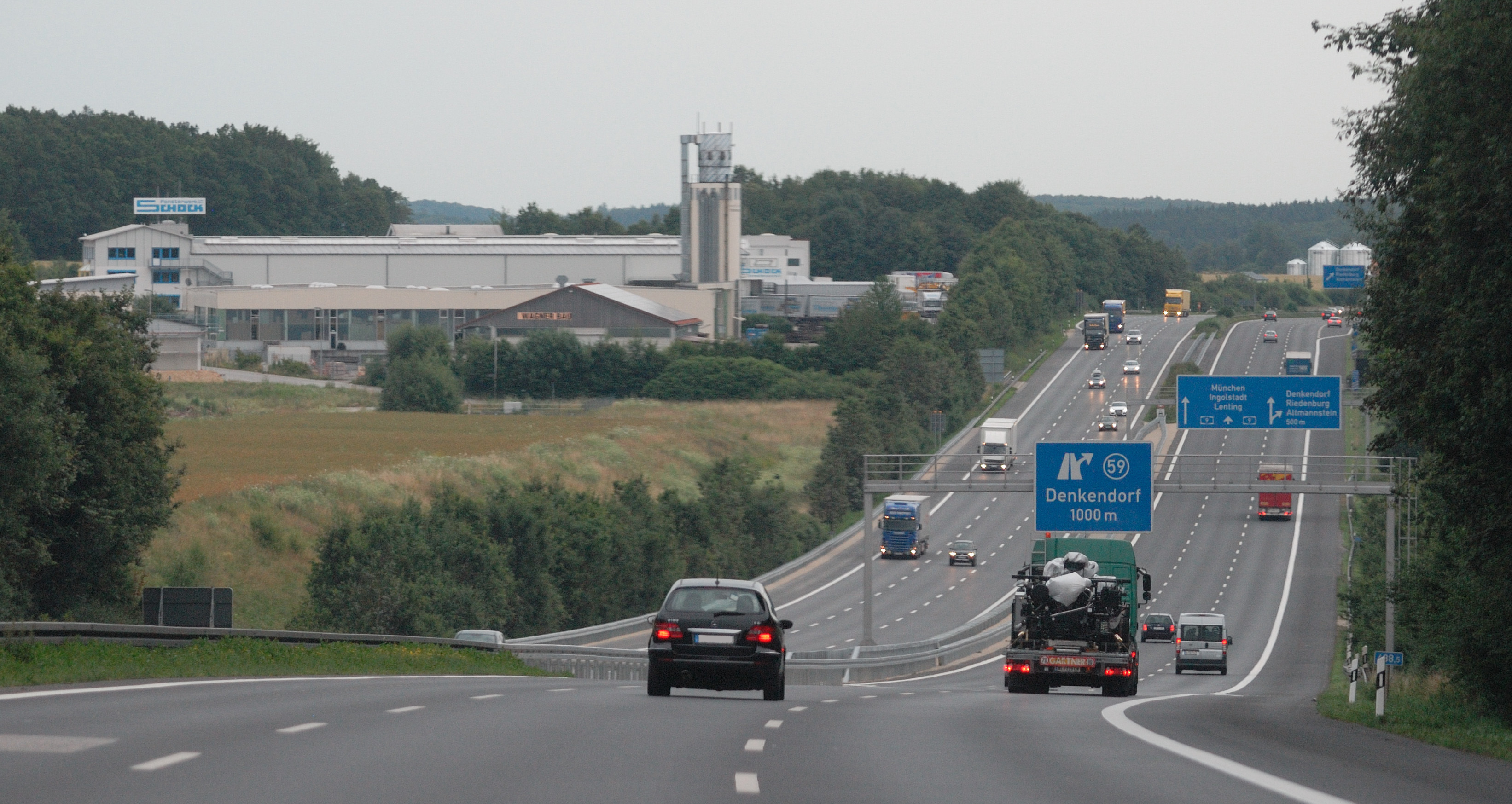 Denkendorf exit of A 9 seen from north; road shot.